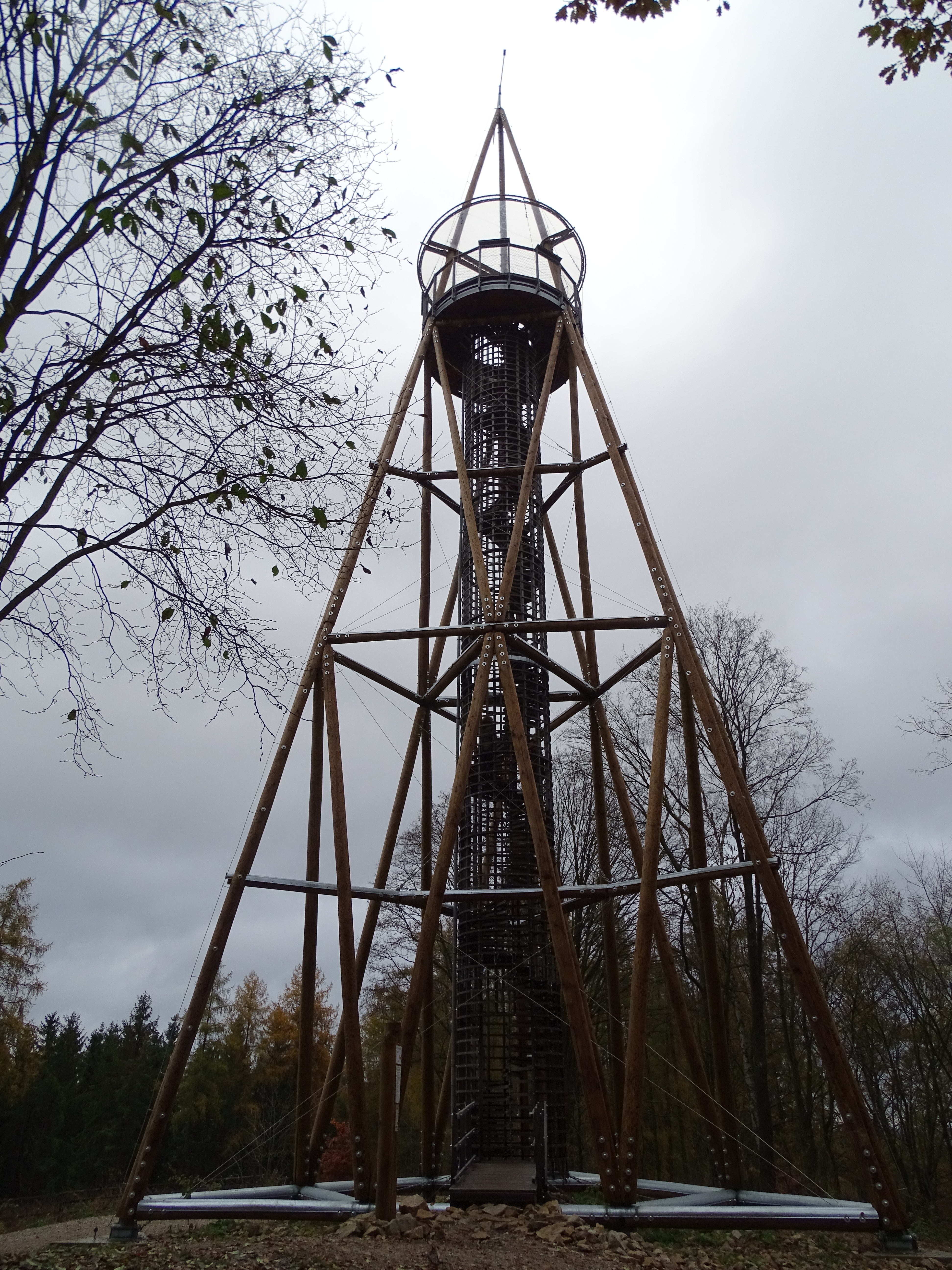 Hudlice, Beroun District, Central Bohemian Region, Czechia. Krušná hora, Máminka tower.